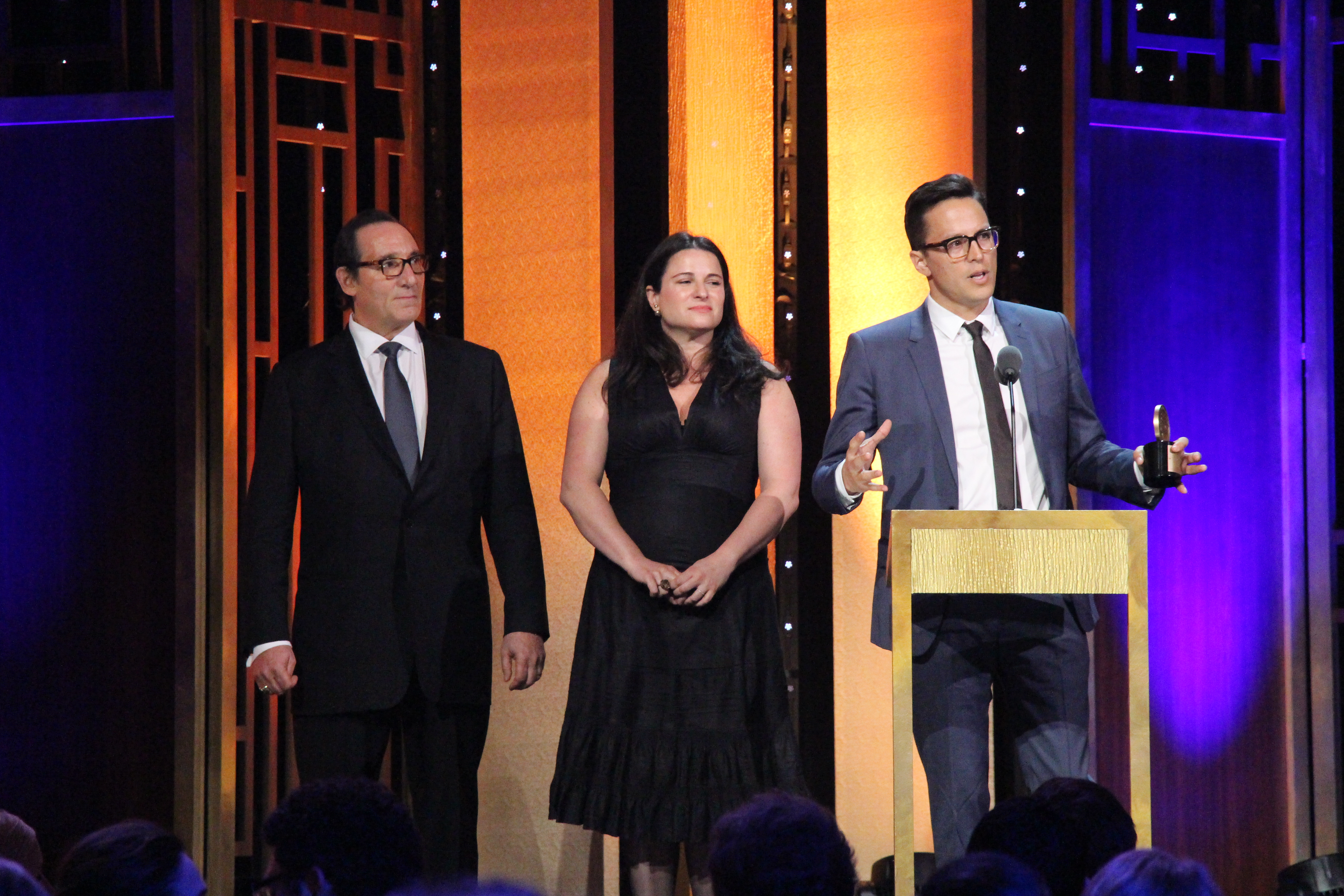 This photo includes Producers Dan Crown and Amy Kaufman, and Director Cary Fukunaga accepting the Peabody for "Beasts of No Nation." (Photo/Sarah E. Freeman/Grady College, in New York City, Georgia, on Saturday, May 21, 2016)